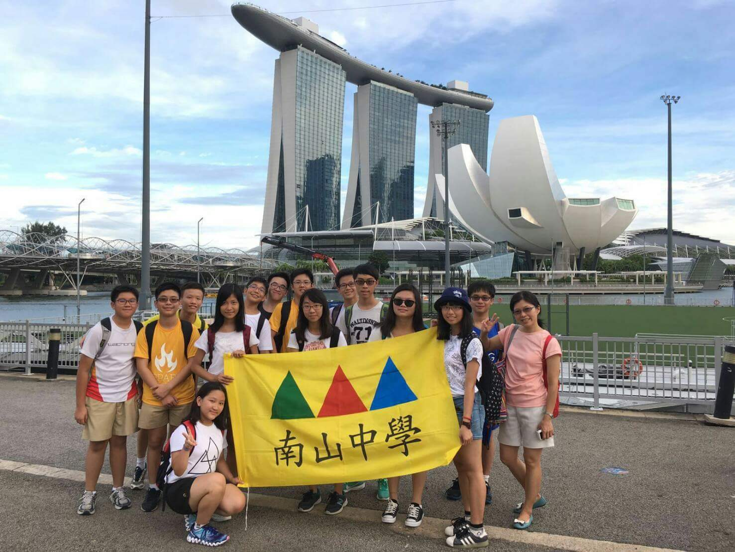 This photo was directly taken from our teachers cellphone and she gave permission to become free use on any platform freely. The Singapore outbound part, in front of a park near the bay.